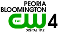 The CW Peoria-Bloomington (WHOI-2) logo